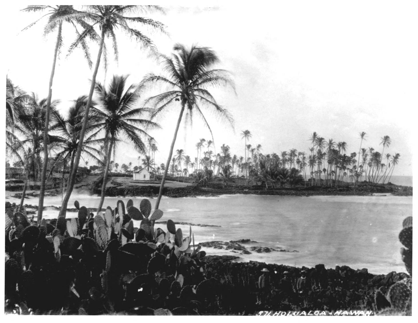 This is a picture from about 1890 of Kamoa Point, location of a large royal complex dating from about 1300 through the time of King Kamehameha I. It is still a popular surfing site, and is in the Holualoa 4 National Historic District and on the National Register of Historic Places.